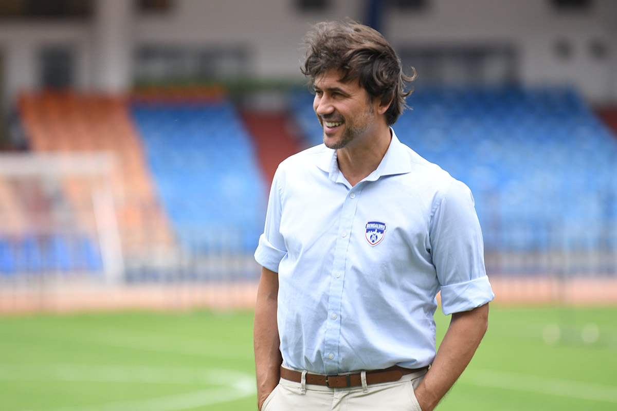 Carles Cuadrat, snapped at the Sree Kanteerava Stadium in Bengaluru before taking charge of his first game as head coach.